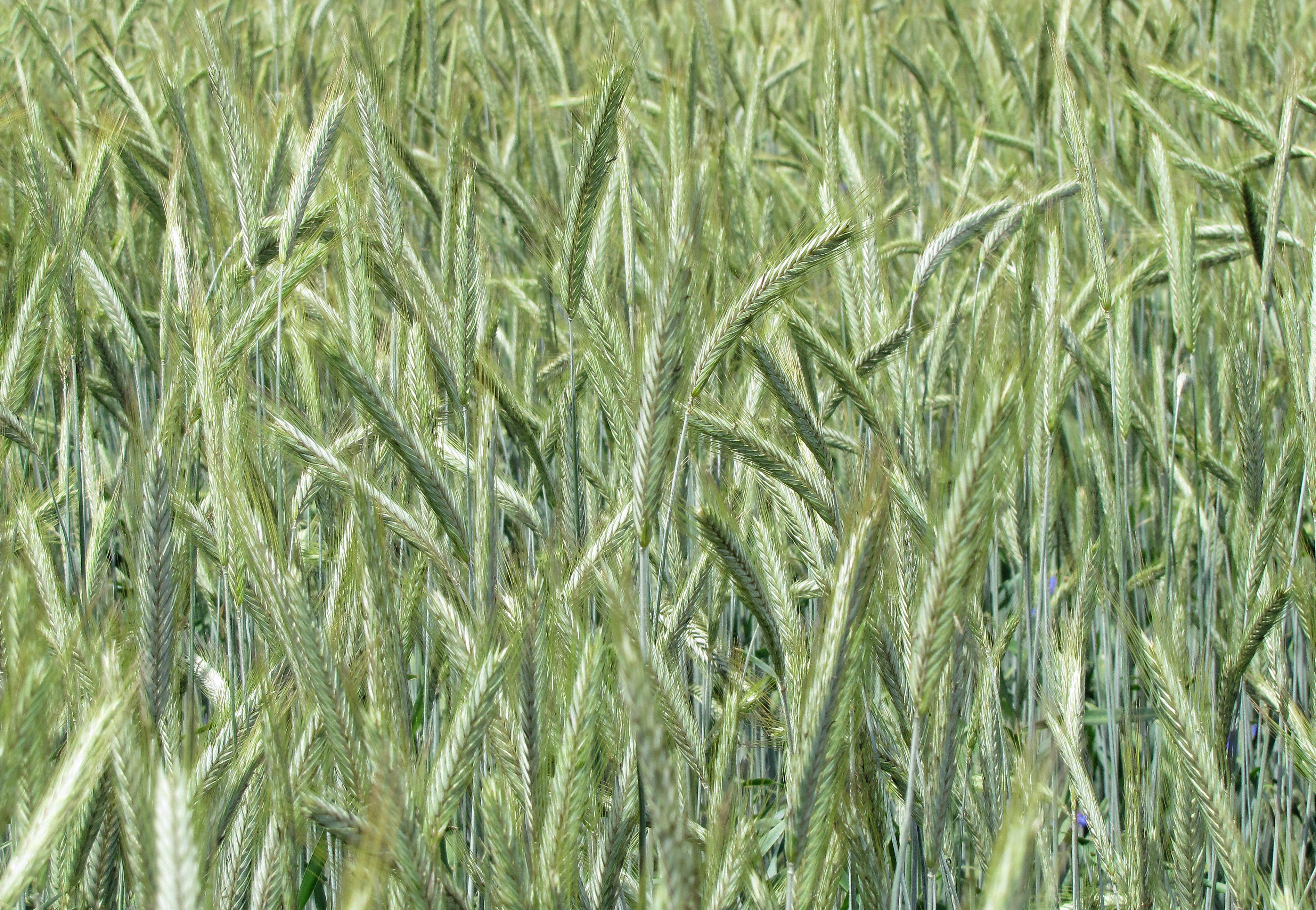 Rye